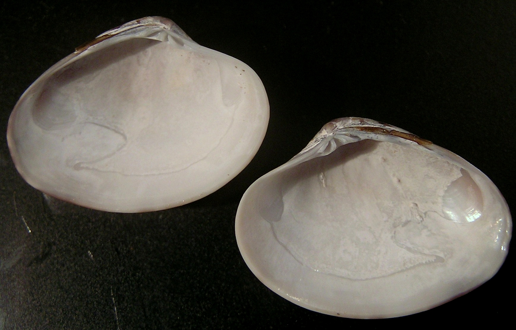 Marcia marmorata Lamarck, 1822, a venus clam from the family Veneridae